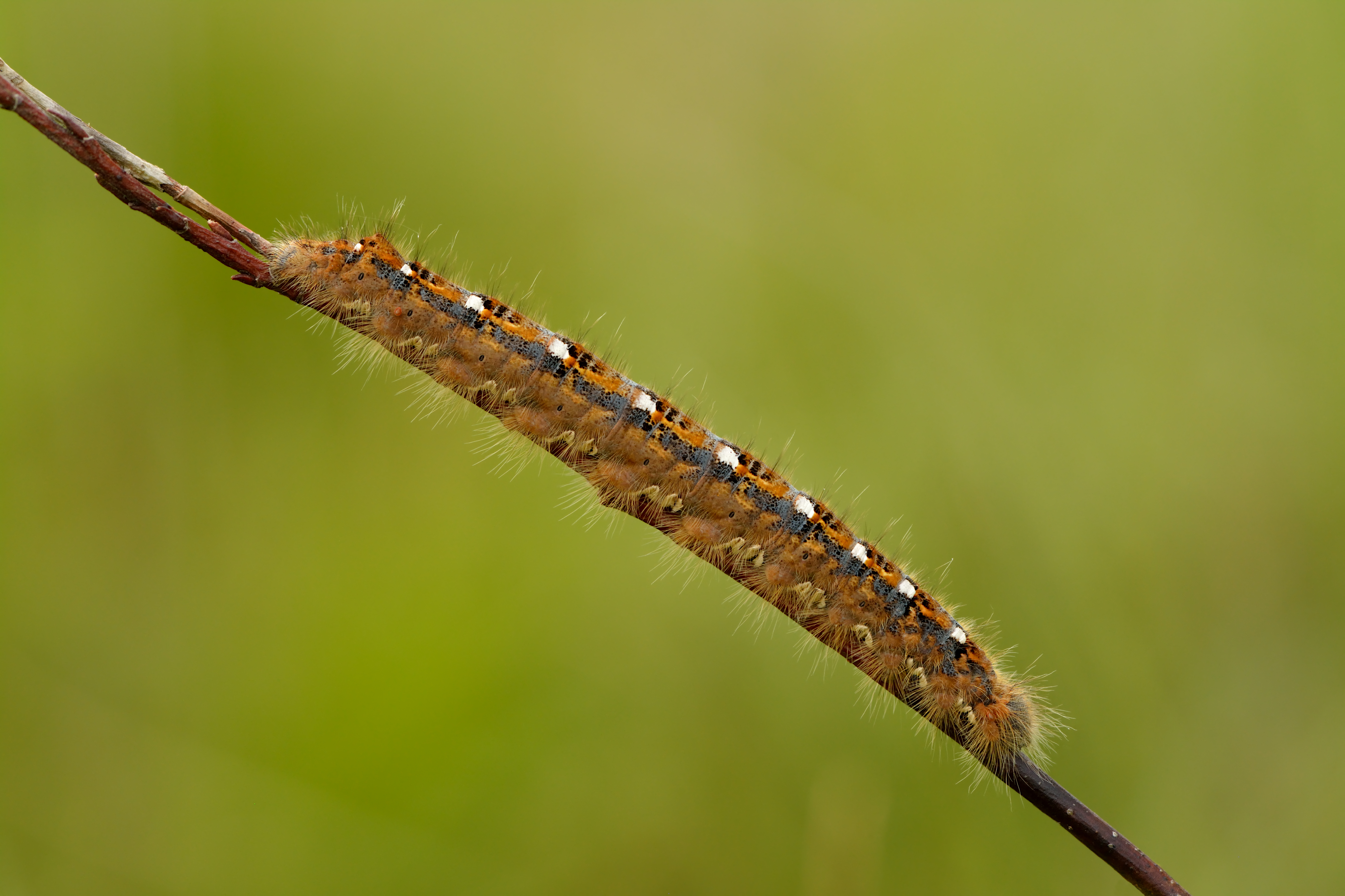 Small lappet moth (Phyllodesma ilicifolia) caterpillar. Niitvälja bog, Northwestern EstoniaEesti: Mustika-võsakedriku (Phyllodesma ilicifolia) röövik. Niitvälja soo, Loode-Eesti.